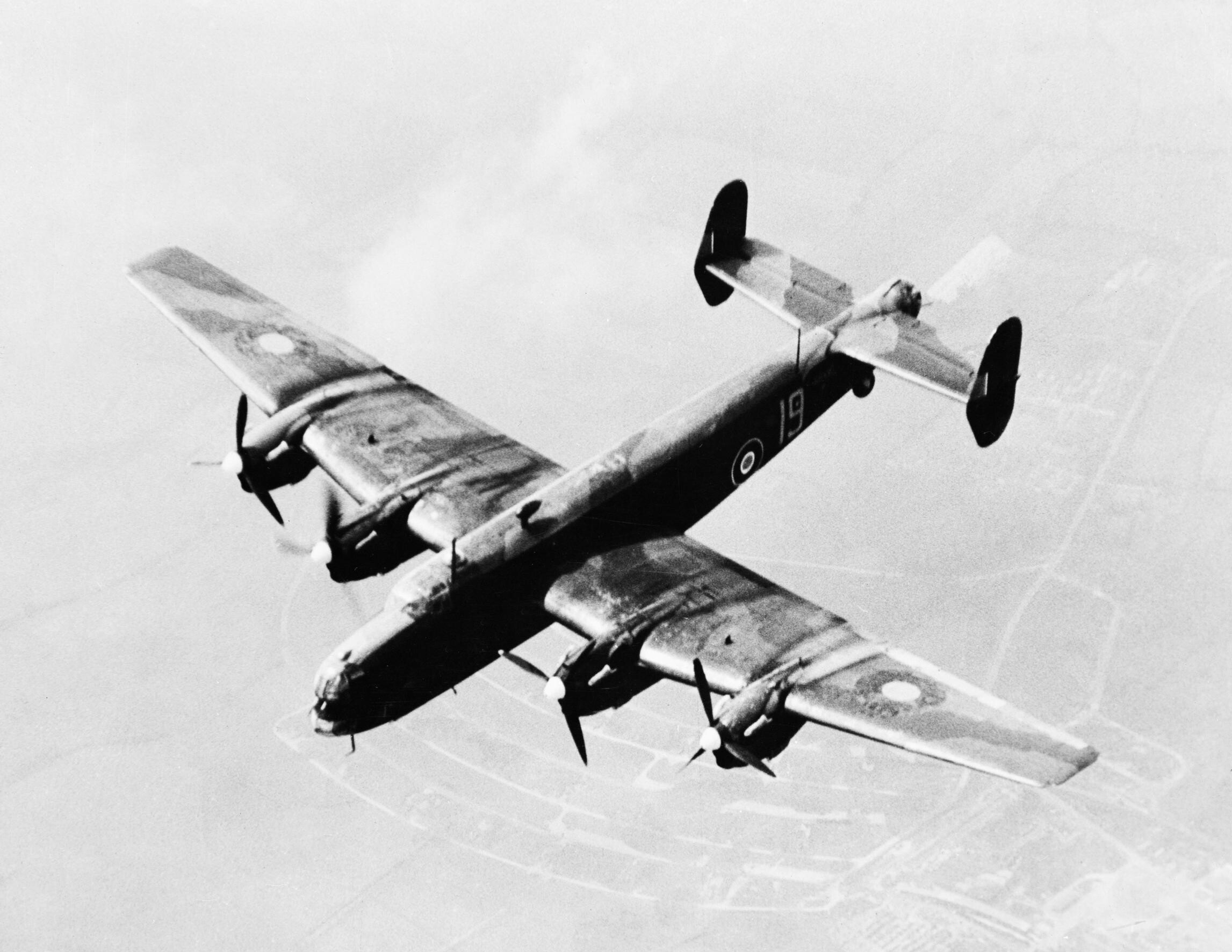 Handley Page Halifax Mk II Series 1 of No. 1658 Heavy Conversion Unit based at Riccall, Yorkshire, being test-flown on the starboard inner engine only by Squadron Leader P Dobson in order to determine the height loss for emergency flights on one engine, July 1943. Halifax B Mark II Series 1, R9430 ‘19’, of No. 1658 Heavy Conversion Unit based at Riccall, Yorkshire, being test-flown on the starboard inner engine only by Squadron Leader P Dobson in order to determine the height loss for emergency flights on one engine.